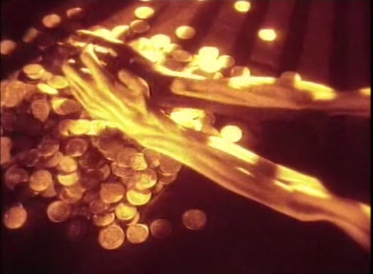 Scenography for the movie Greed. 1924.